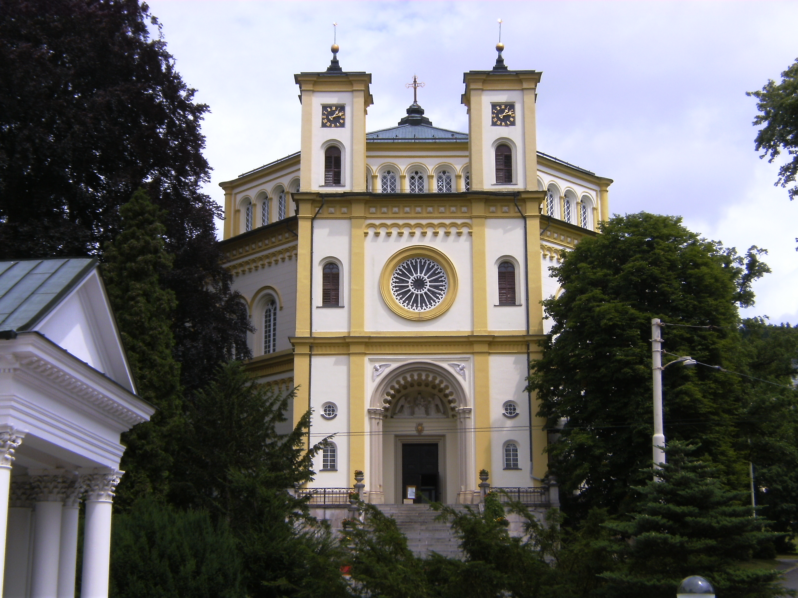 Church in Mariánské Lázně